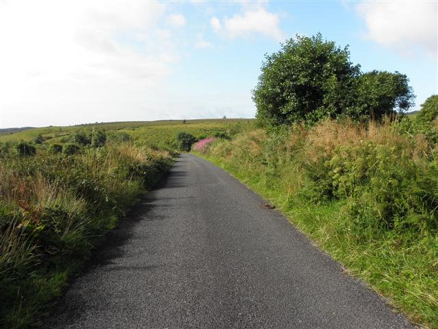 Road heading south-southwest at Altachullion Upper townland, parish of Corlough, County Cavan, Republic of Ireland